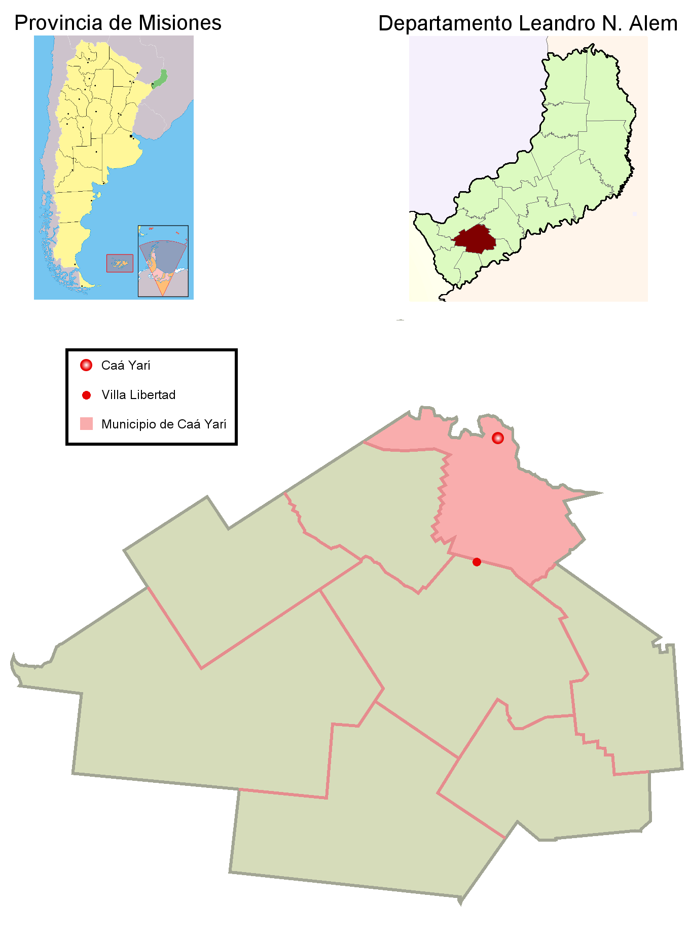 Map showing municipio of Caá Yarí in Leandro N. Alem department, Misiones Province, Argentina. Big red point marks Caá Yarí town, little red point is Villa Libertad town.